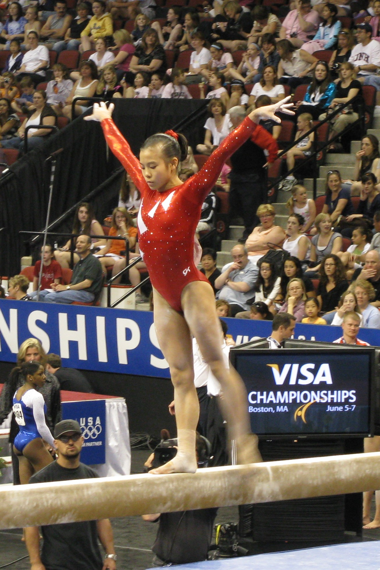 Ivana Hong on the balance beam at the 2008 U.S. Championships in Boston, MA.